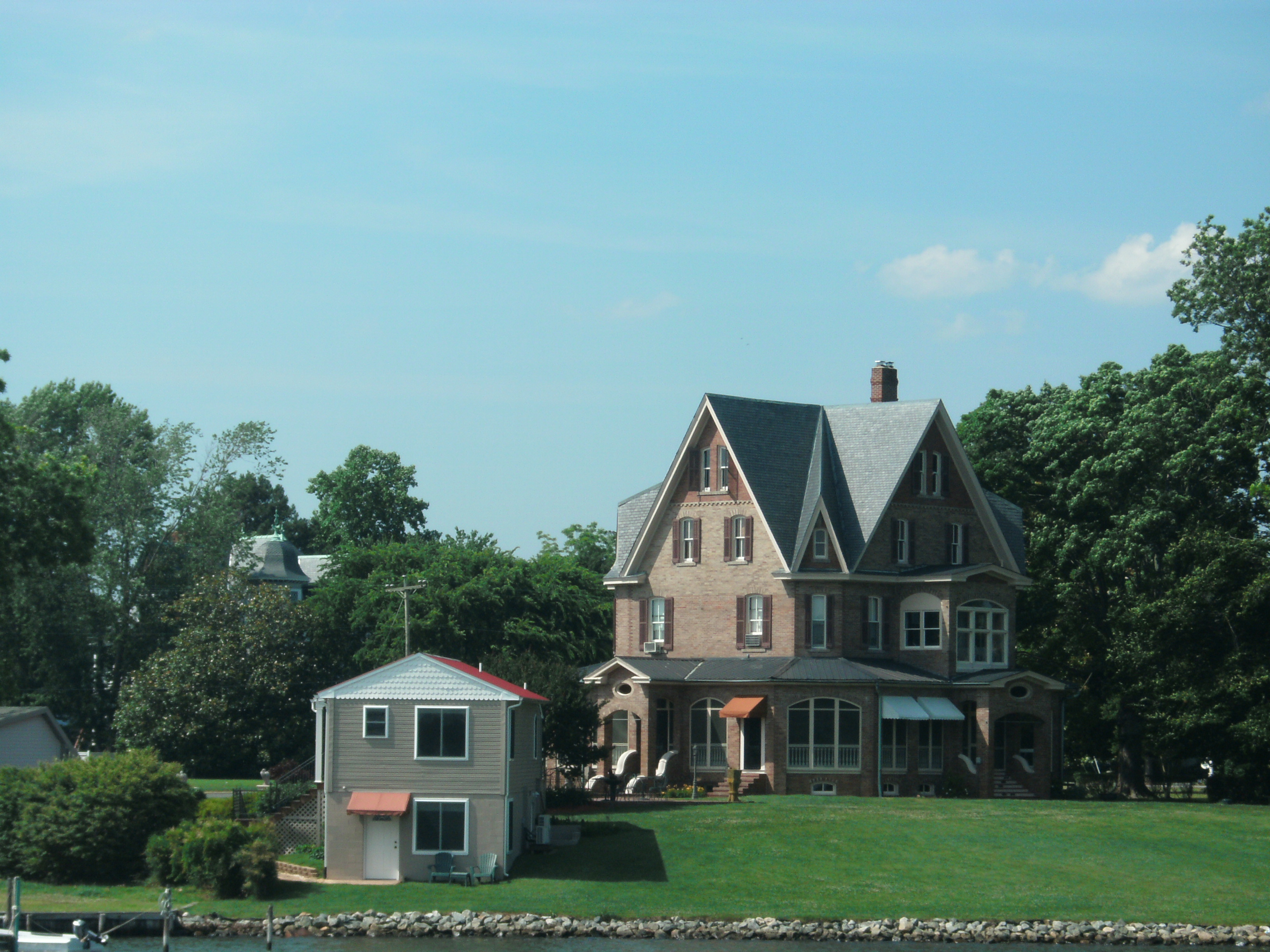 Reedville Historic District, VA 644 at VA 722 Reedville